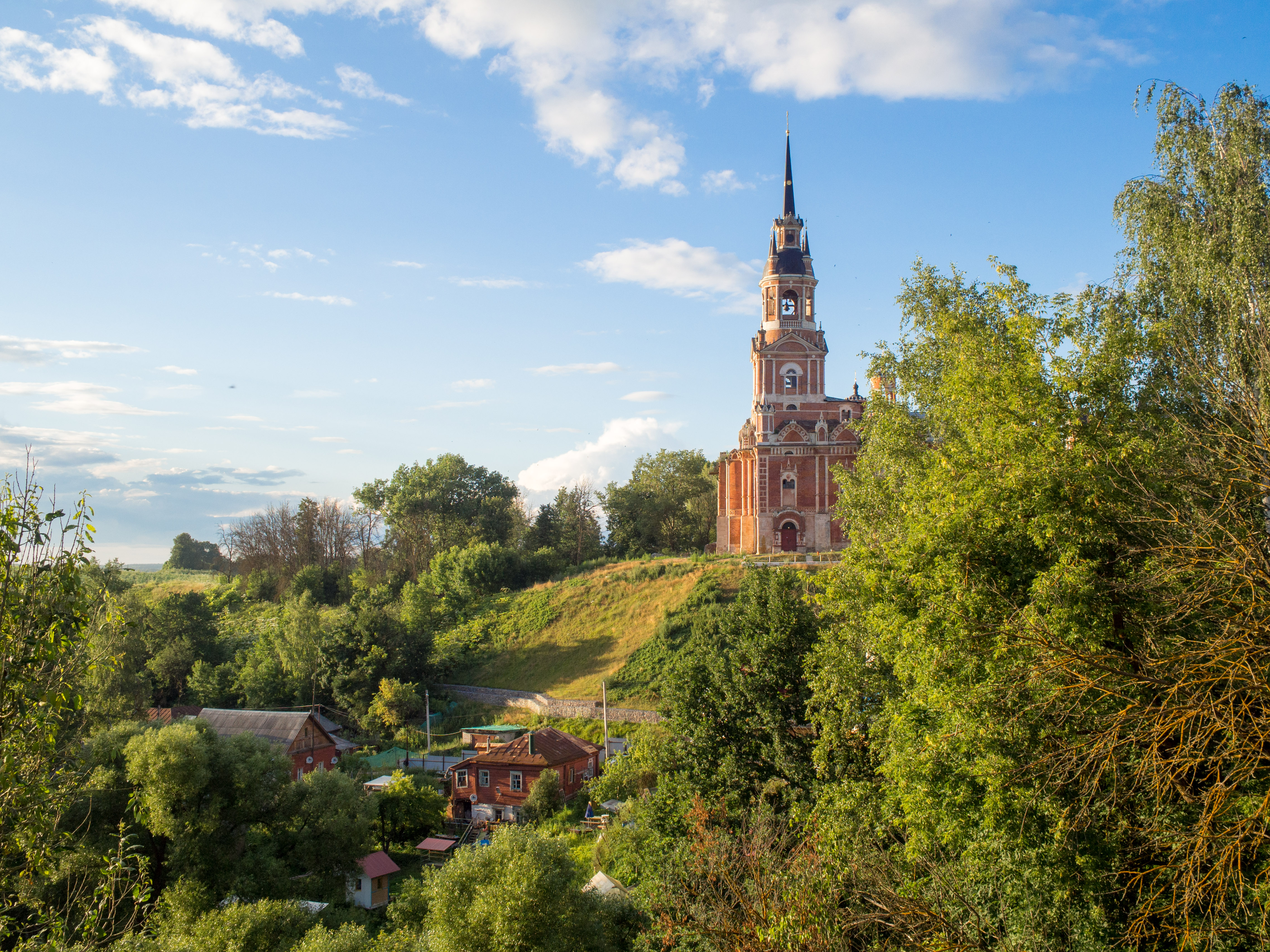 Saint Nicholas Church in Mozhaysk, Moscow Oblast, Russia, July 2016